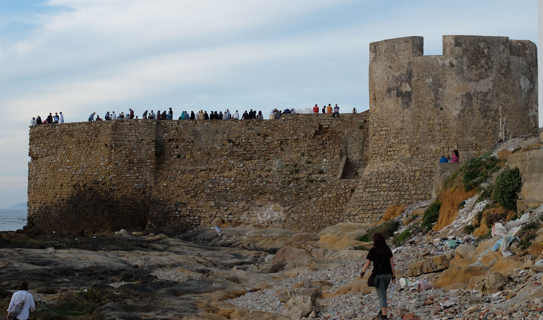 The bastion at the western end of the Asilah medina (above the seaside cemetery on the other side).